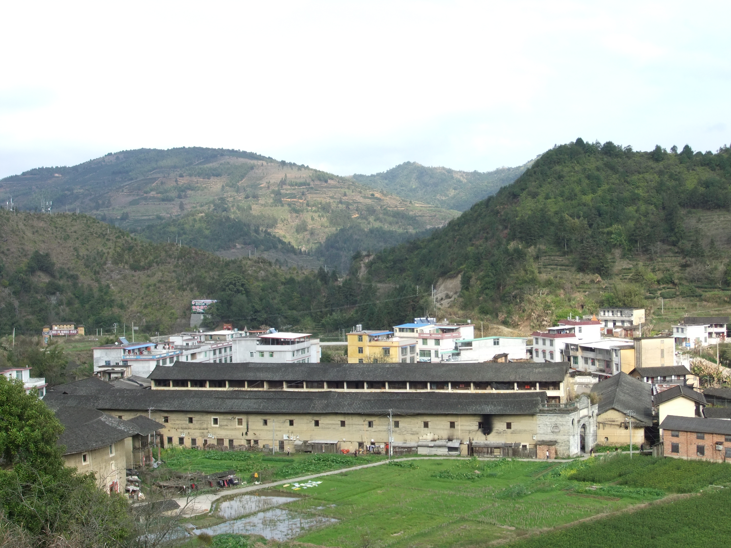 Qujiang Village (Qujiangcun). in Shuyang Town, Nanjing County, Fujian. The village has lots of tulou buildings of various kind, interspersed with modern buildings. The village stretches in the valley of a small river that flows to the south-west. The main road (the new route of County Route 562, aka 562) runs parallel to the river and the village, on its northwestern side.